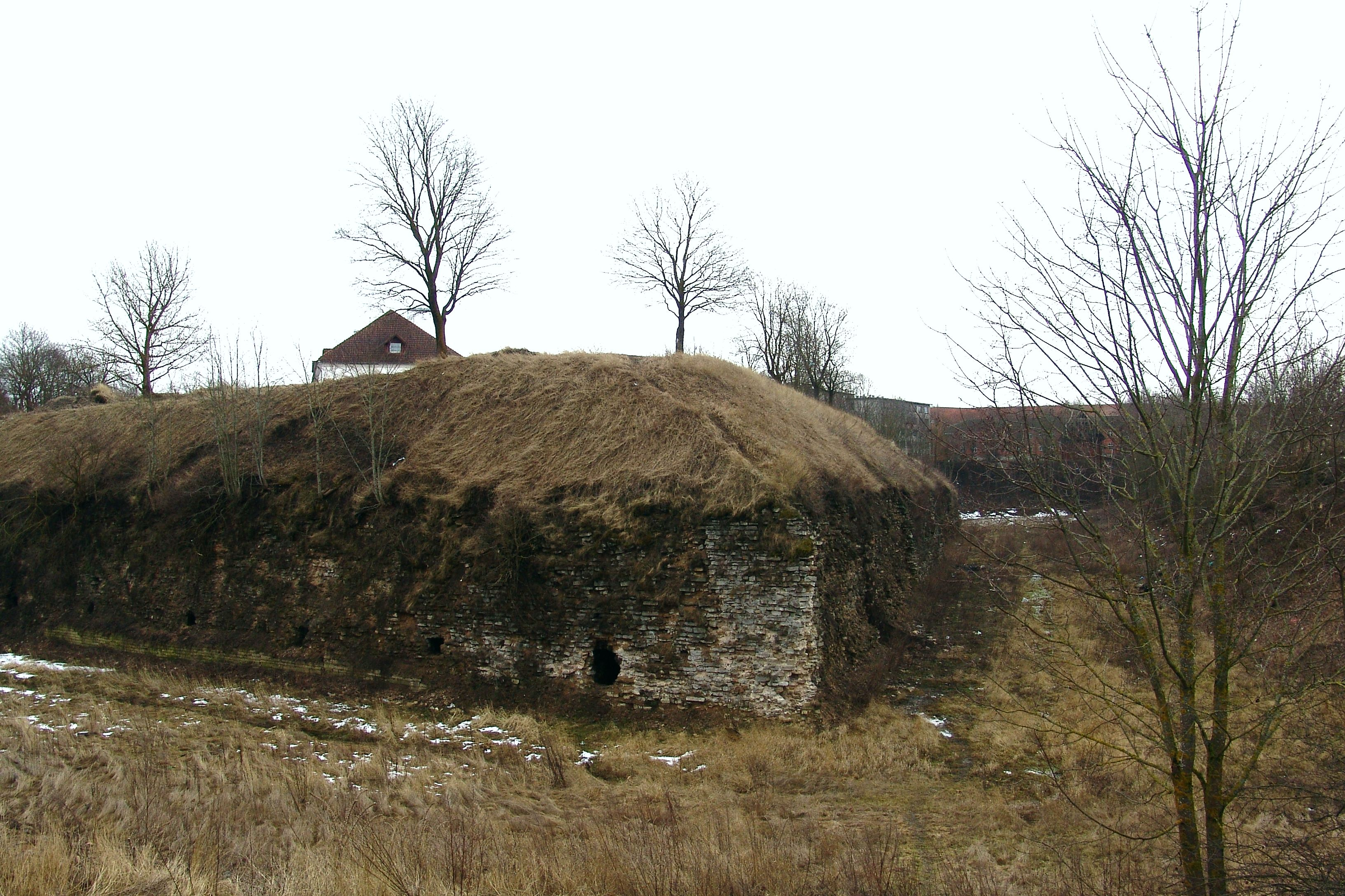 Bastion Gloria of Narva castle